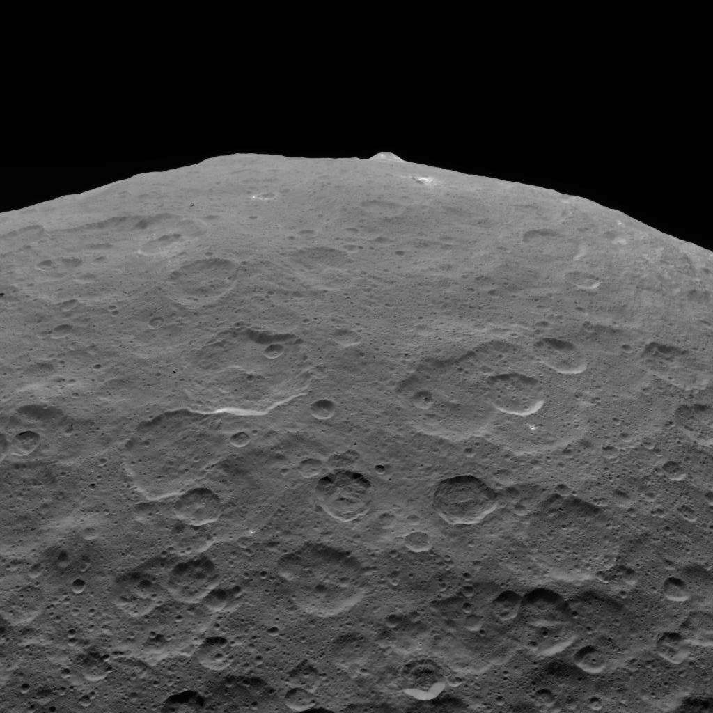 PIA22769: Last Look: Ahuna Mons on Ceres This photo of Ceres and one of its key landmarks, Ahuna Mons, was one of the last views Dawn transmitted before it depleted its remaining hydrazine and completed its mission. This view, which faces south, was captured on Sept. 1, 2018 at an altitude of 2,220 miles (3,570 kilometers) as the spacecraft was ascending in its elliptical orbit. At its lowest point, the orbit dipped down to only about 22 miles (35 kilometers), which allowed Dawn to acquire very high-resolution images in this final phase of its mission. Some of the close-up images of Ceres are shown here. Ahuna Mons is about 12 miles (20 kilometers) across and 2.5 miles (4 kilometers) high and displays sodium carbonate along its flanks. This is the most recent of a potential two dozen cryovolcanoes whose remnants are found across Ceres' surface. Dawn's mission is managed by JPL for NASA's Science Mission Directorate in Washington. Dawn is a project of the directorates Discovery Program, managed by NASA's Marshall Space Flight Center in Huntsville, Alabama. JPL is responsible for overall Dawn mission science. Orbital ATK Inc., in Dulles, Virginia, designed and built the spacecraft. The German Aerospace Center, Max Planck Institute for Solar System Research, Italian Space Agency and Italian National Astrophysical Institute are international partners on the mission team. For a complete list of Dawn mission participants, visit For more information about the Dawn mission, visit